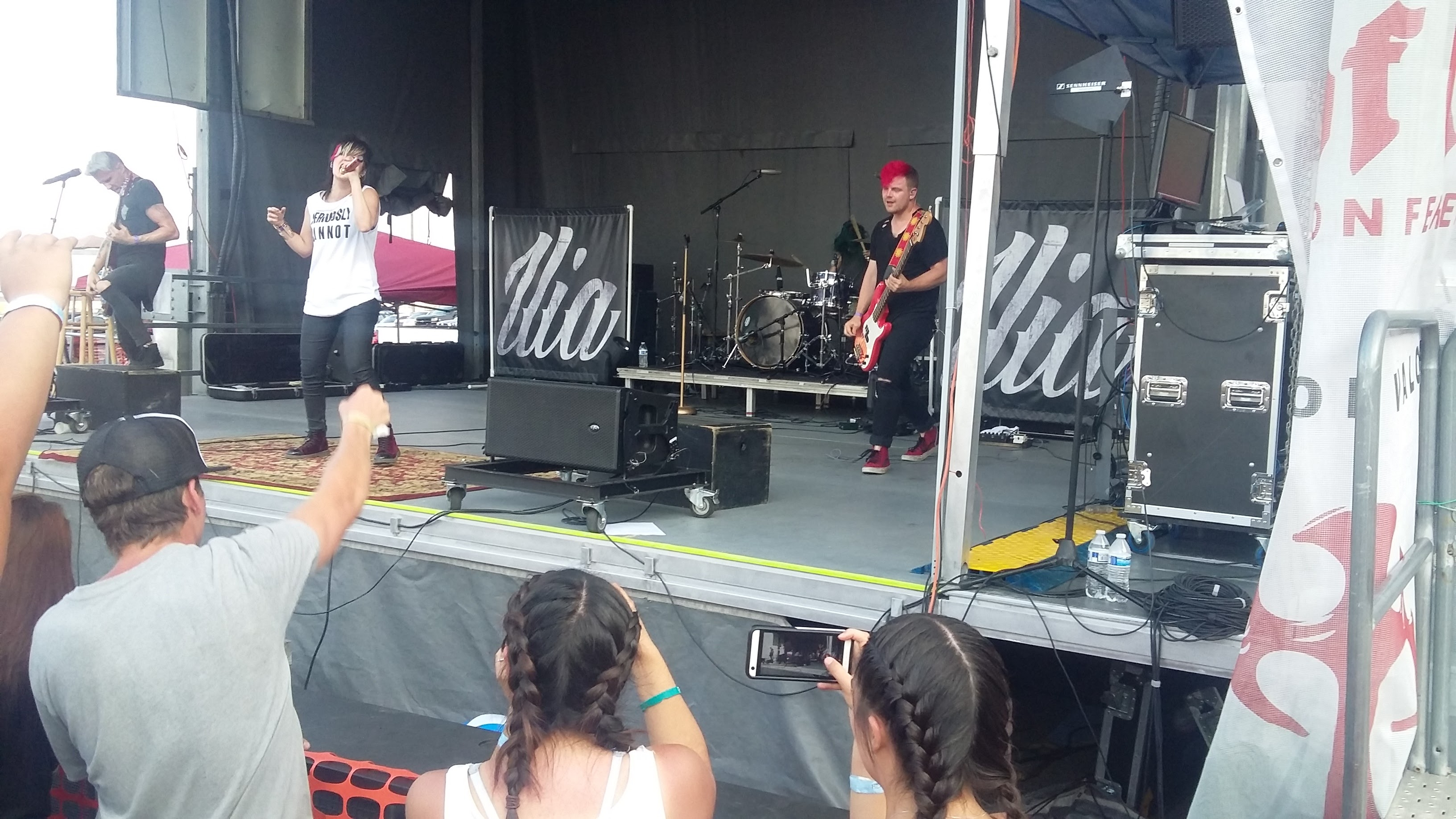 Ilia, HF2016